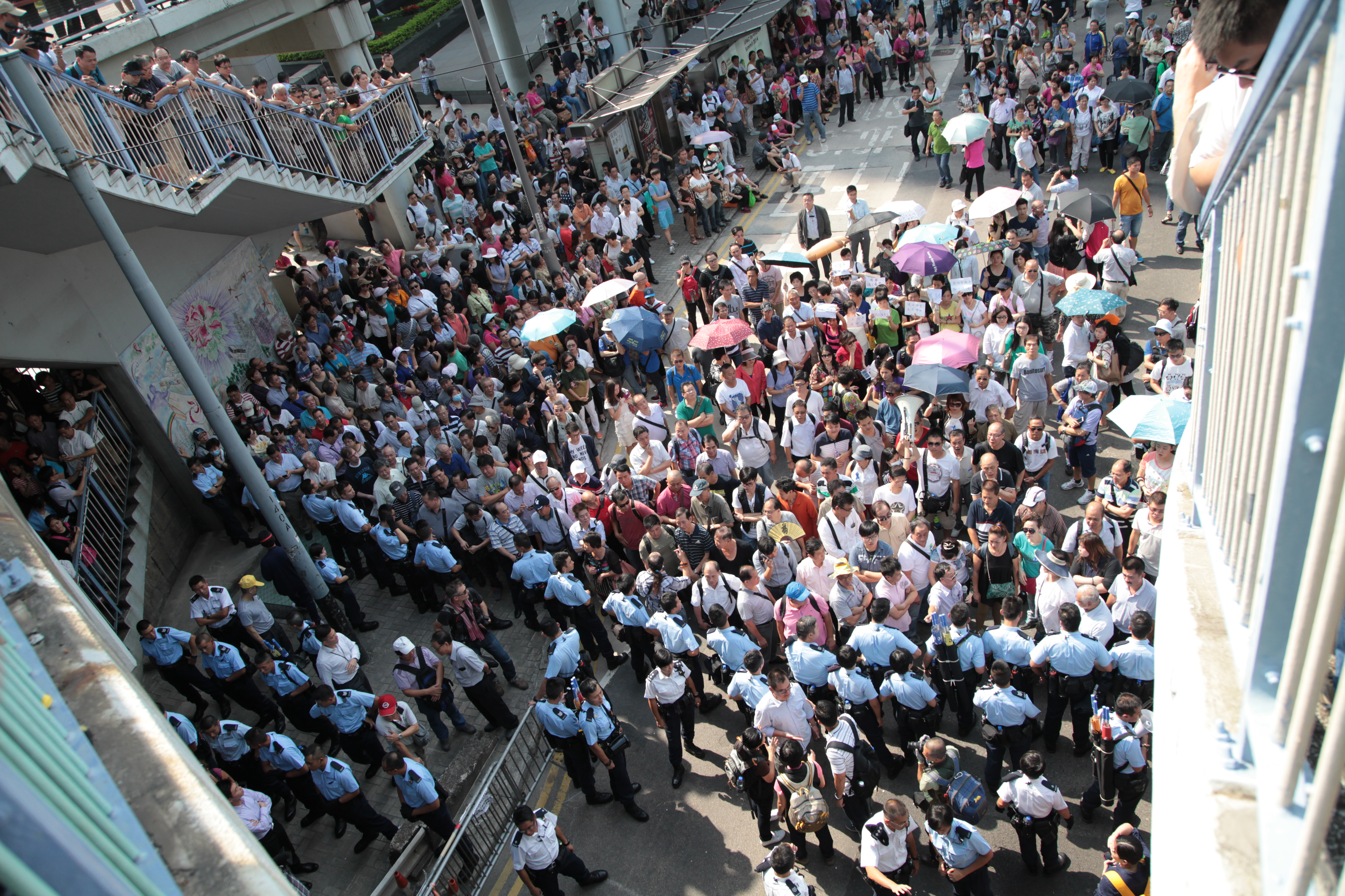 Protesters in Admiralty during Umbrella Revolution